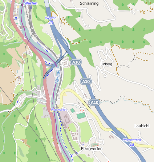 Export 1:25000 This map may be incomplete, and may contain errors. Don't rely solely on it for navigation.